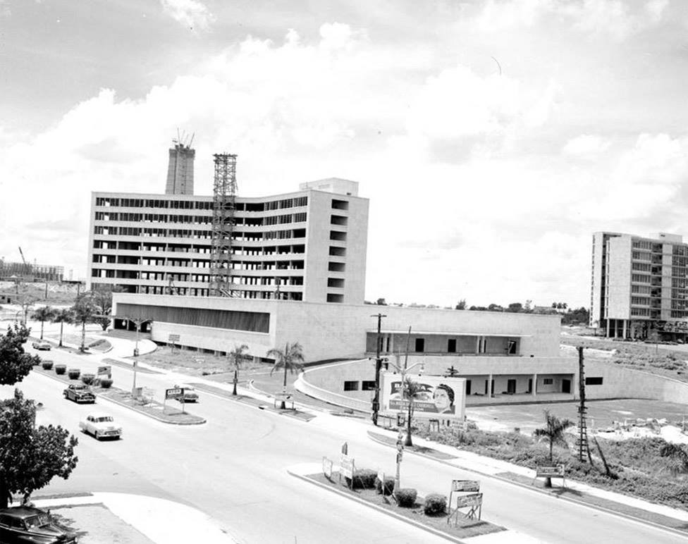 Martín Domínguez Esteban, Architect_Ministry of Communications Building, 1954, Avenida Rancho Boyeros, La Habana.